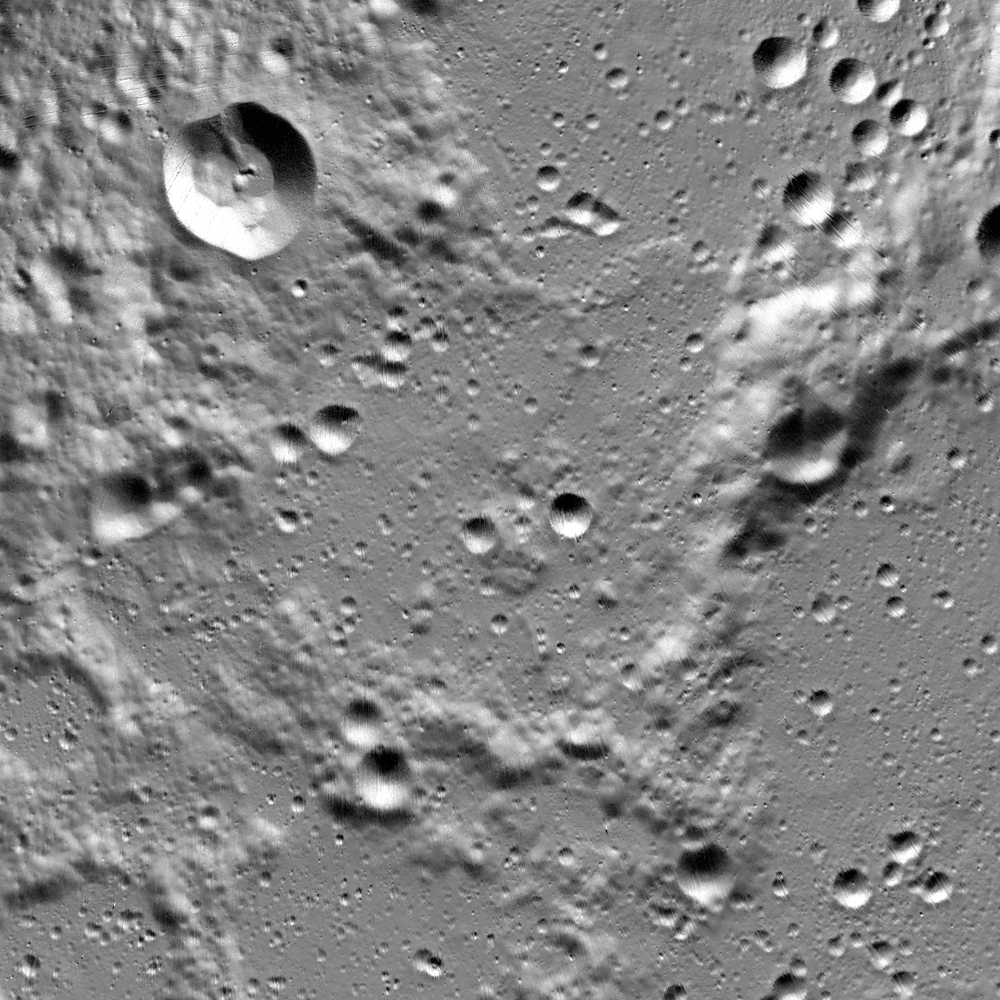 Crater Florey (diam. 70 km) on the Moon, near the North pole (heavily eroded crater in the center with diameter about 1/3 of image width). In upper right it fuses with bigger crater Peary, in lower right borders even bigger crater Byrd. The image is centered at 87°N, 340°E. It is build from data by Lunar Orbiter Laser Altimeter (LOLA) aboard the Lunar Reconnaissance Orbiter. Width of the image is 130 km; north is up.